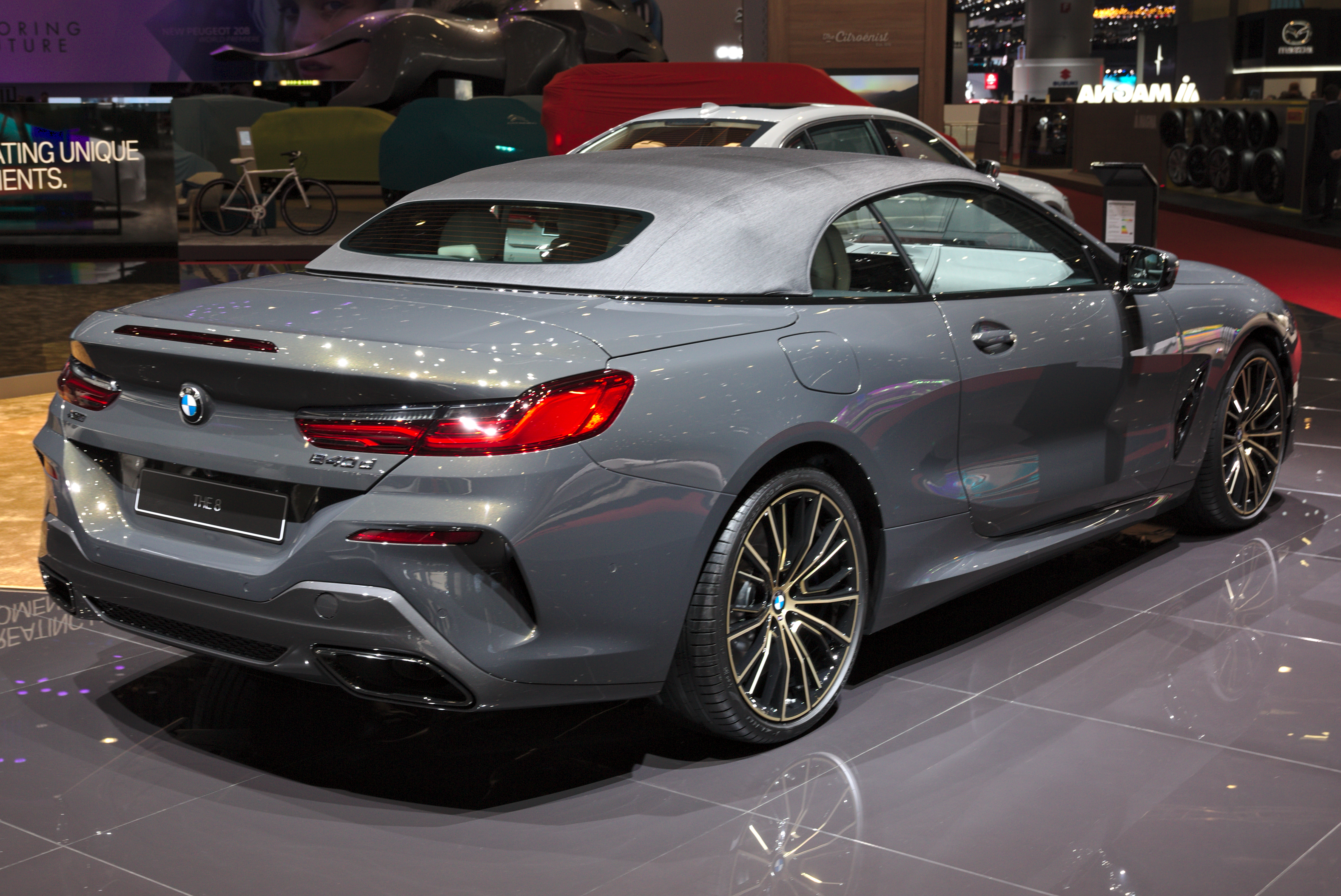 BMW 840d Cabrio at Geneva Motor Show 2019